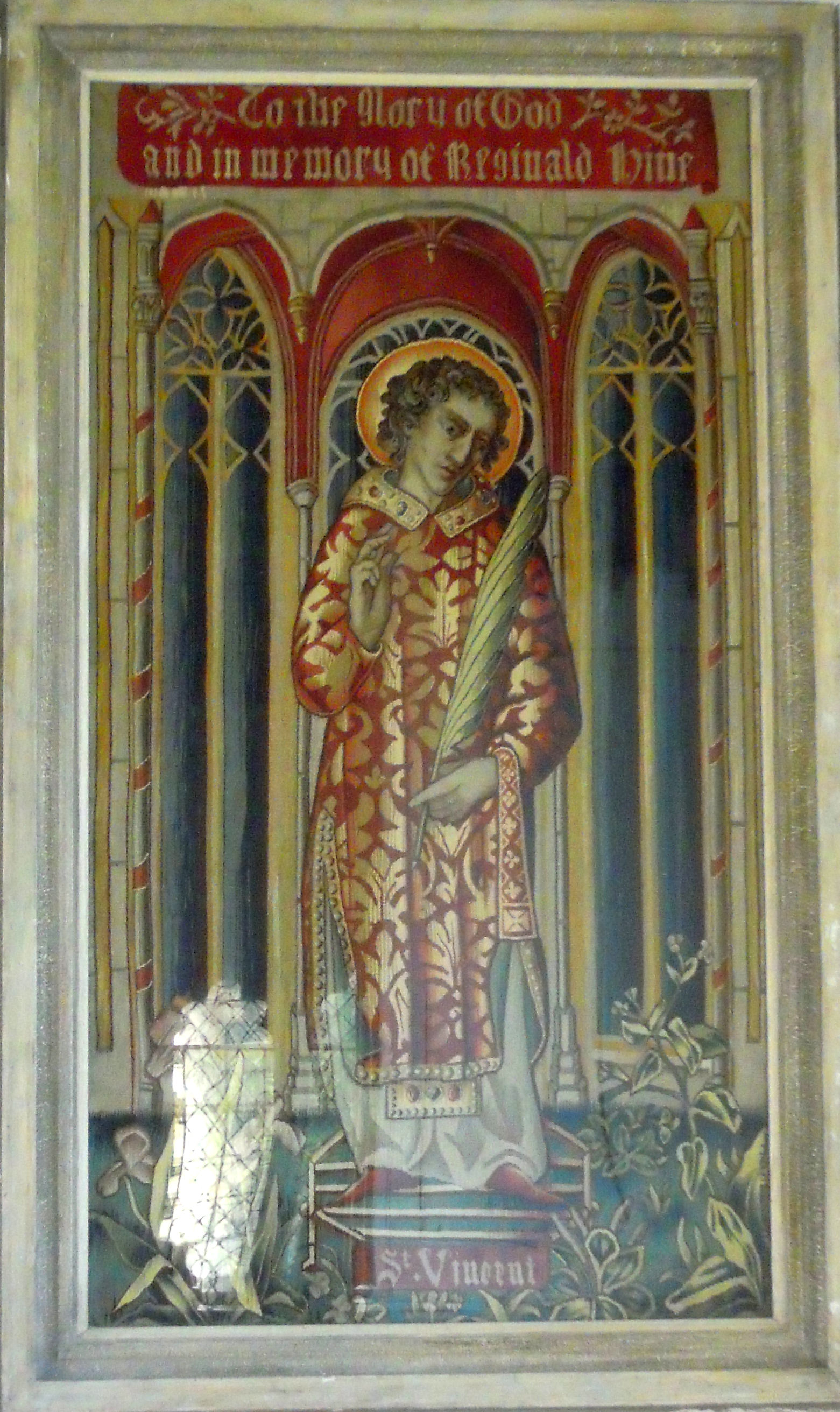 Embroidery dedicated to historian Reginald Hine in the Church of St Vincent, Newnham